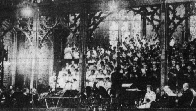 Original Caption: MUSIC LOVERS FLOCK TO BETHLEHEM (accompanied the article, "Bach Festival Continues Today: Bethlehem Choir, Soloists and Members of Philadelphia Orchestra to Sing Mass: Audience Ecstatic: Seven Cantatas Are Produced for First Time in This Country."